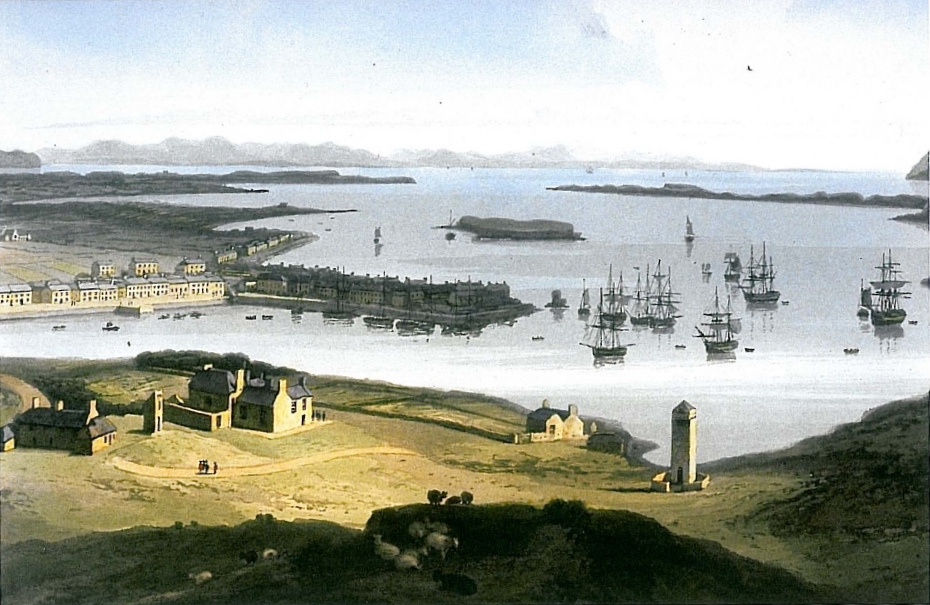 Stornoway, Isle of Lewis